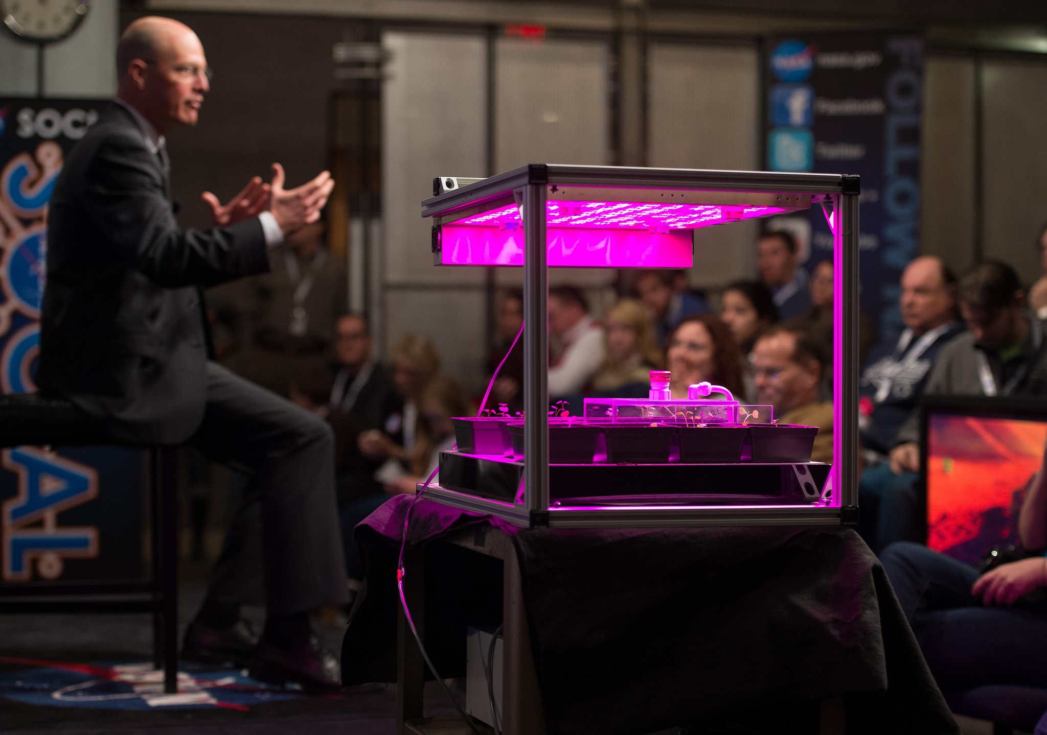 Marshall Porterfield, Life and Physical Sciences Division Director at NASA Headquarters, talks about the human body in microgravity and other life sciences at a NASA Social exploring science on the International Space Station at NASA Headquarters, Wednesday, Feb. 20, 2013 in Washington. The Vegetable Production System ("Veggie"), a container used for growing plants on the ISS, is pictured in the foreground. Veggie is a deployable plant growth unit capable of producing salad-type crops to provide the crew with a palatable, nutritious, and safe source of fresh food and a tool to support relaxation and recreation. Veggie provides lighting and nutrient delivery, but utilizes the cabin environment for temperature control and as a source of carbon dioxide to promote growth.